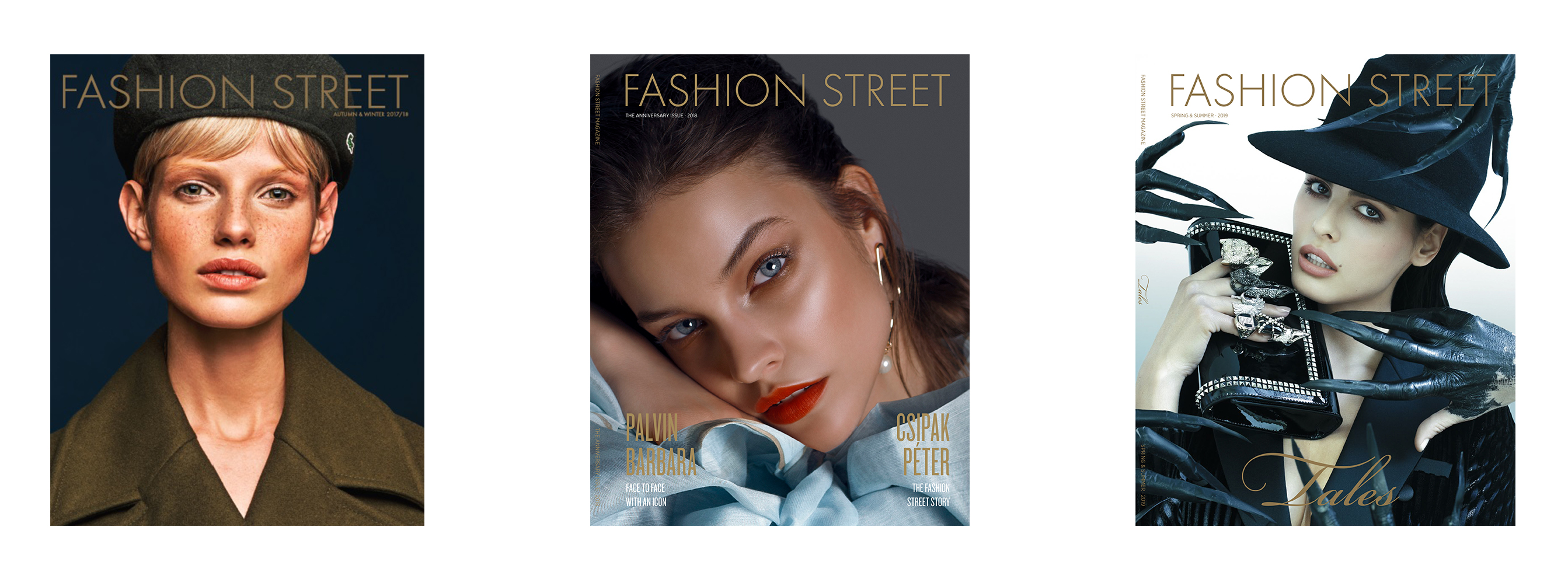 Fashion Street Magazine Covers